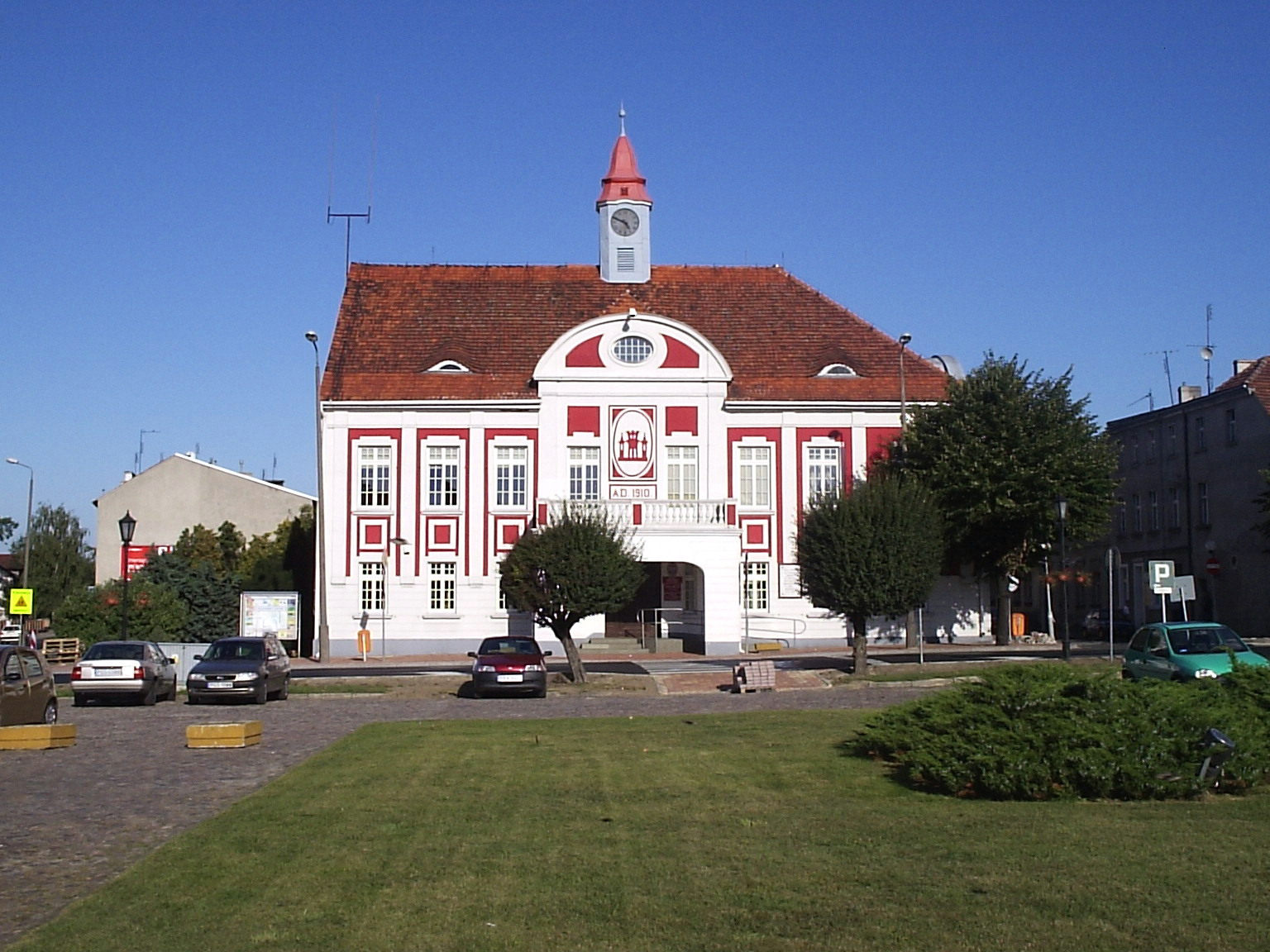 Town hall in Gostyń, Poland